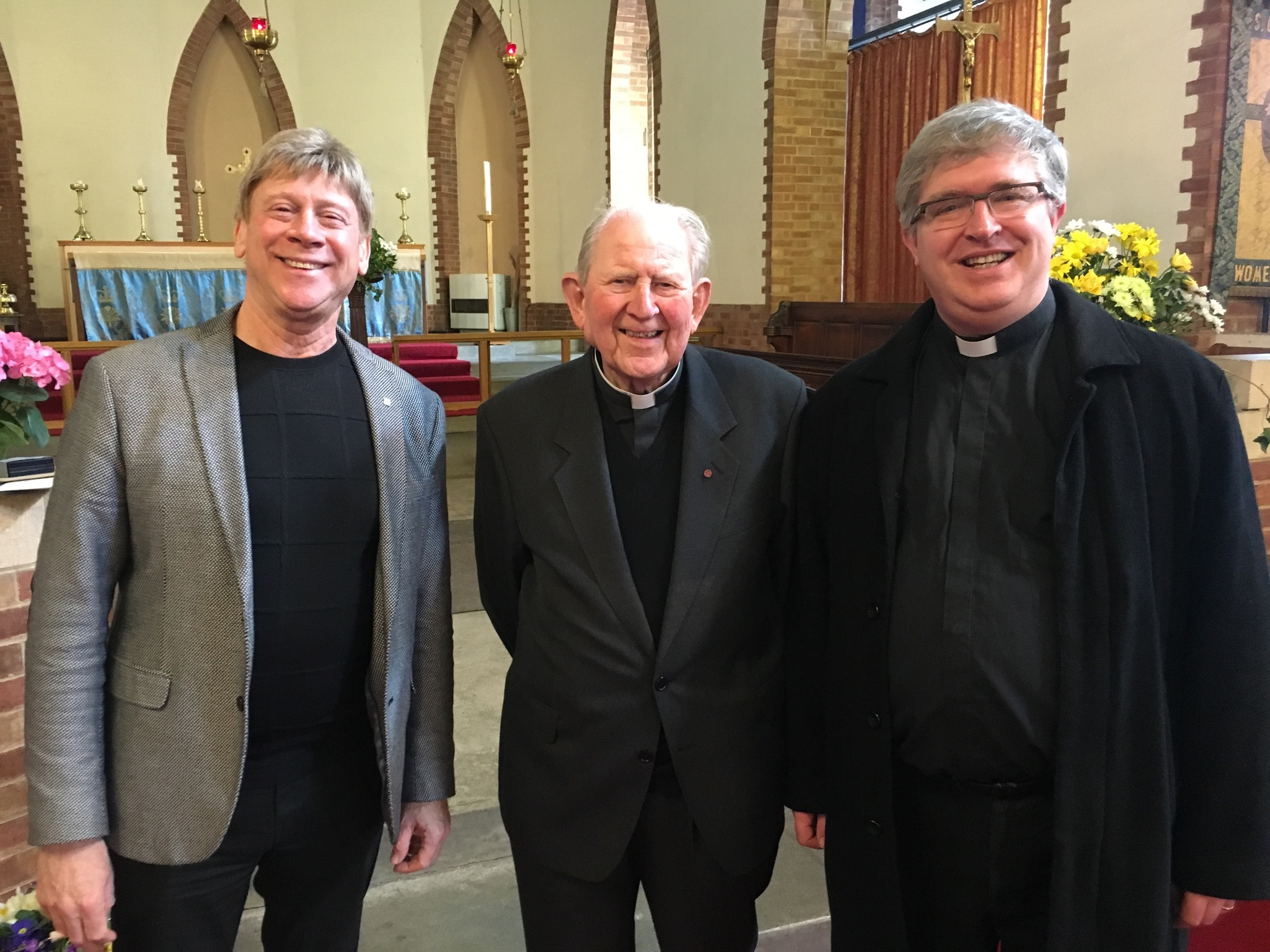 St Gabriel's Church, North Acton. The Director of Music, David Carter (left), on the day of his admission to the Order of St Mellitus for 50 years service in his post. With him are the Very Rev'd Brian Horlock (retired parish priest, who appointed him in 1966), and the Rev'd Timothy L'Estrange (current parish priest).